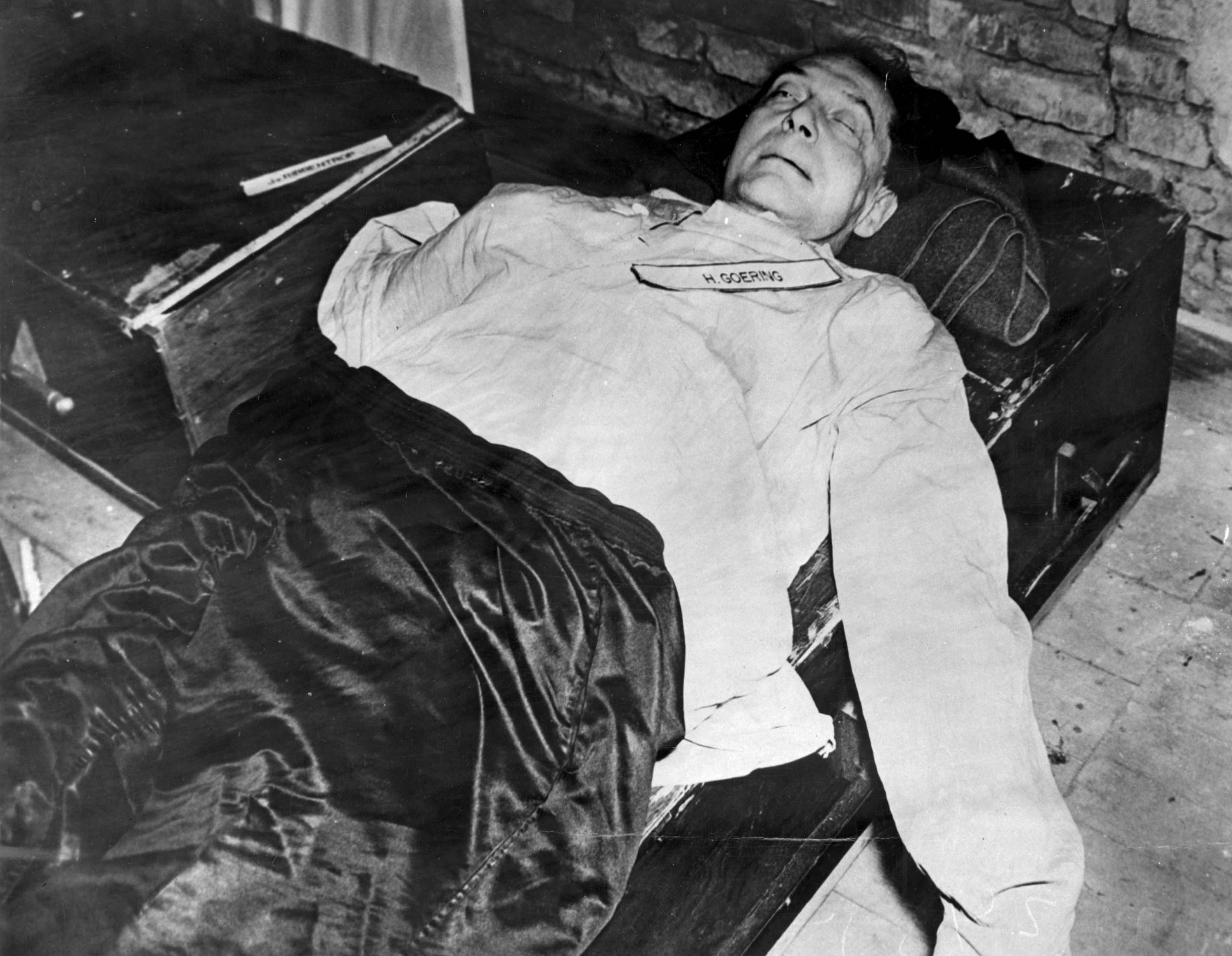 The body of Hermann Göring, Oct. 16, 1946.